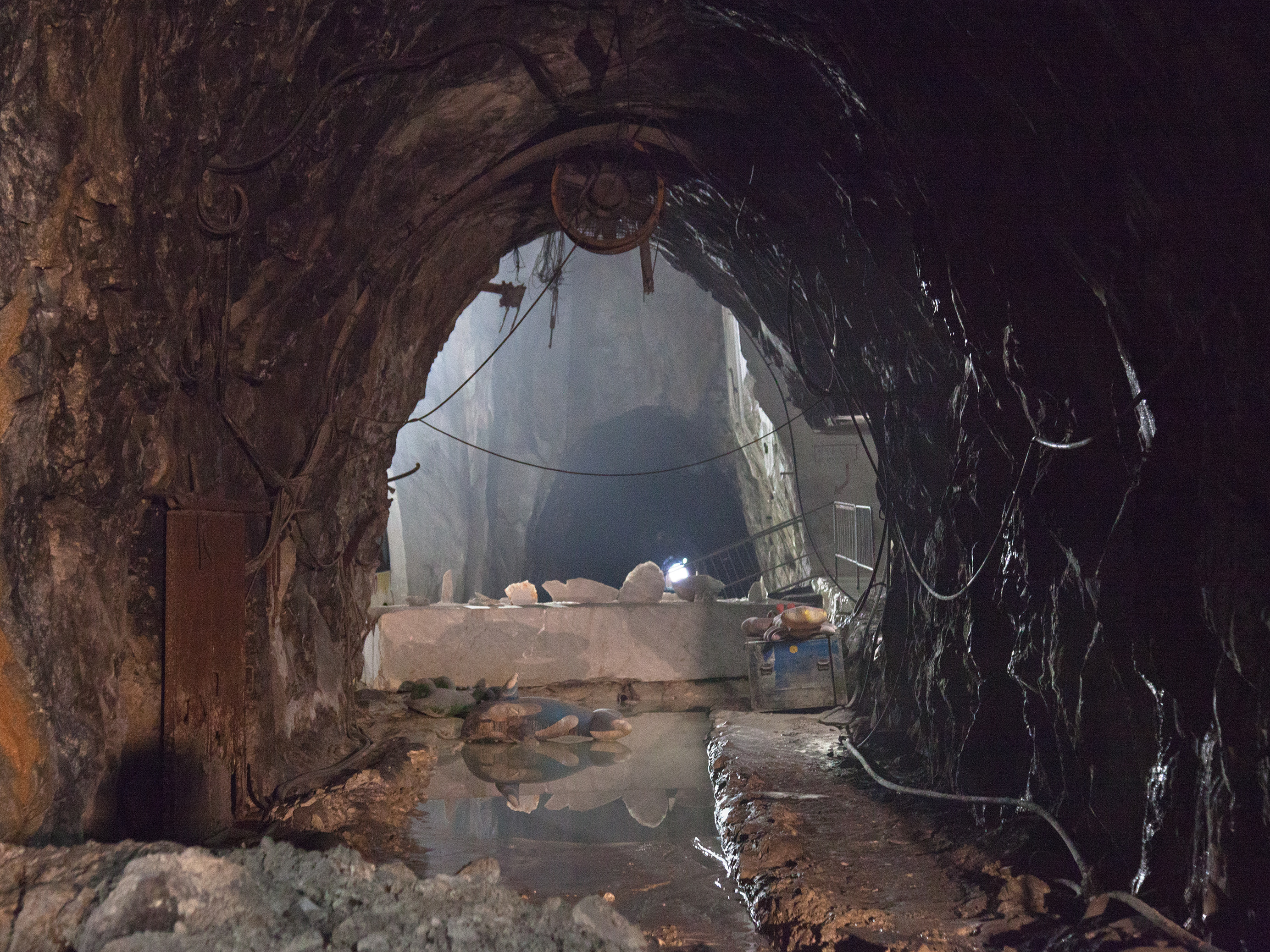 Marble quarry near Carrara, Galleria Ravaccione, Fantiscritti